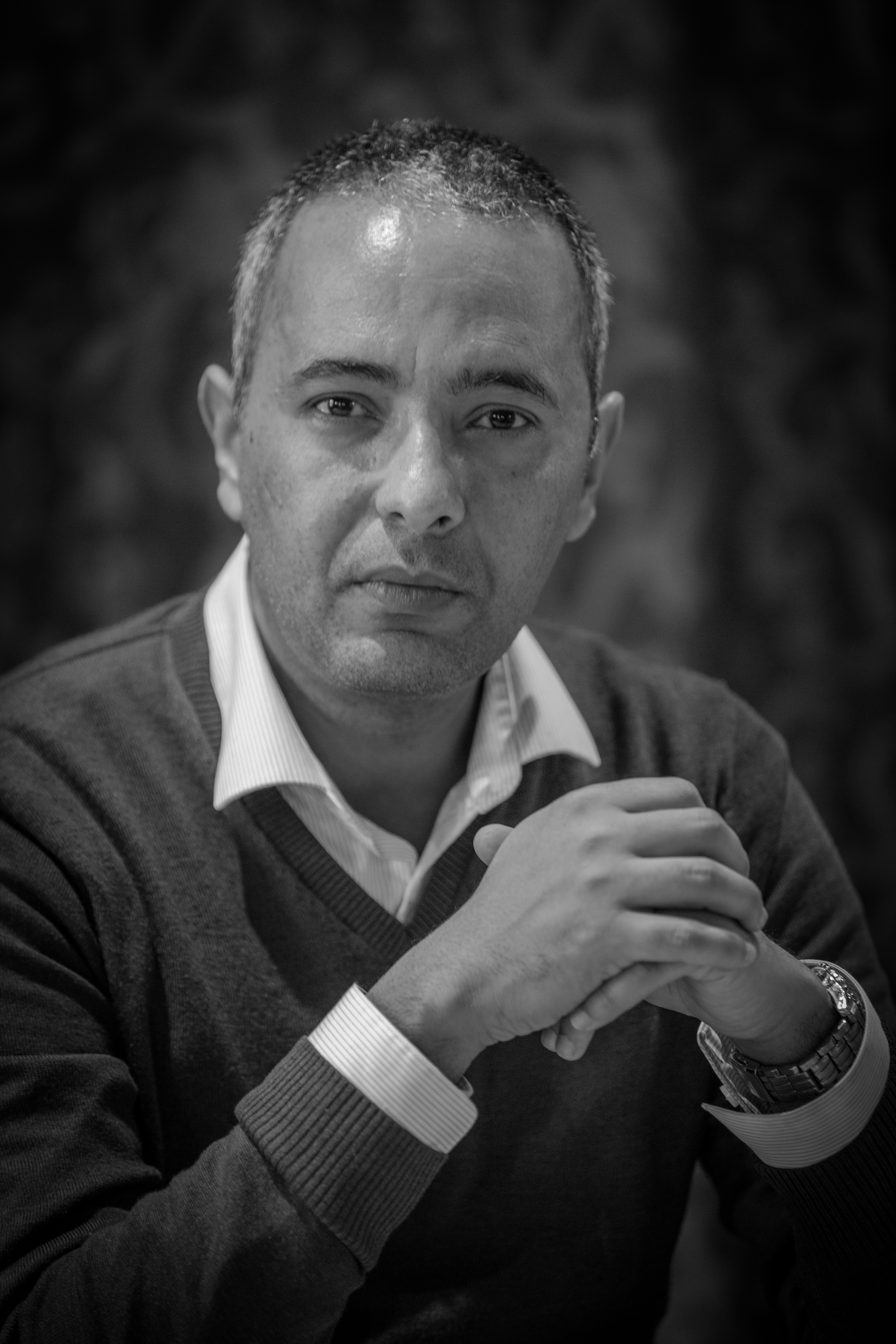 Kamel Daoud by Claude Truong-Ngoc, January 2015